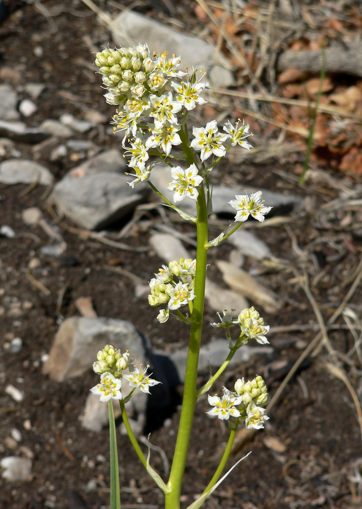 Zigadenus paniculatus in burned area off 158 near Robbers Roost, Spring Mountains, southern Nevada